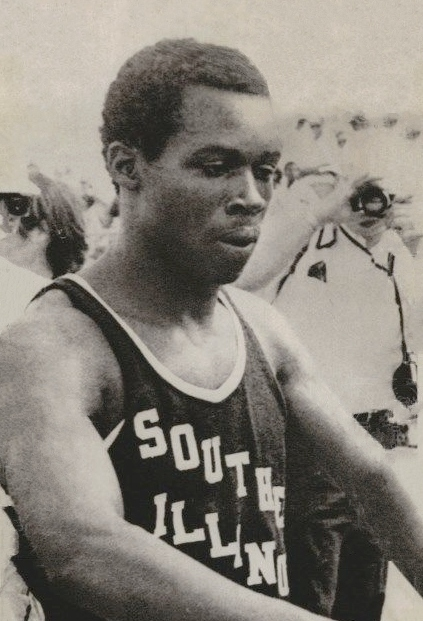 1969 Press Photo Ivory Crockett, Southern Illinois runner, set new world record